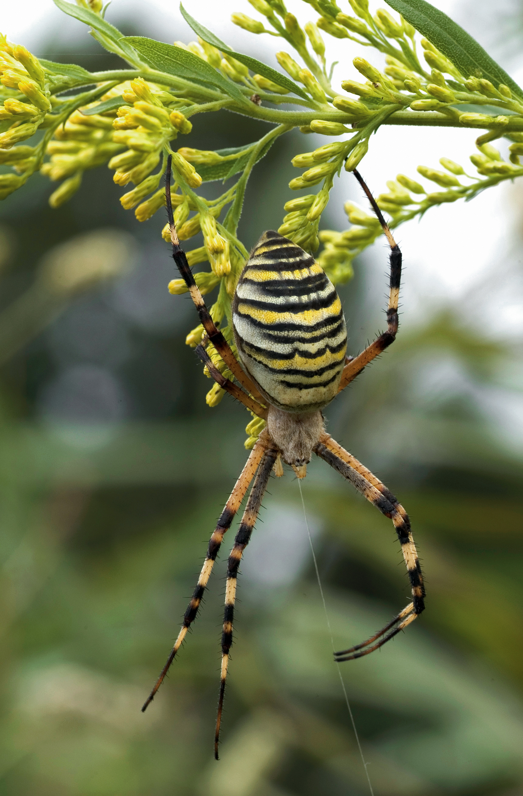 Wasp spider scientific name: Argiope bruennichi